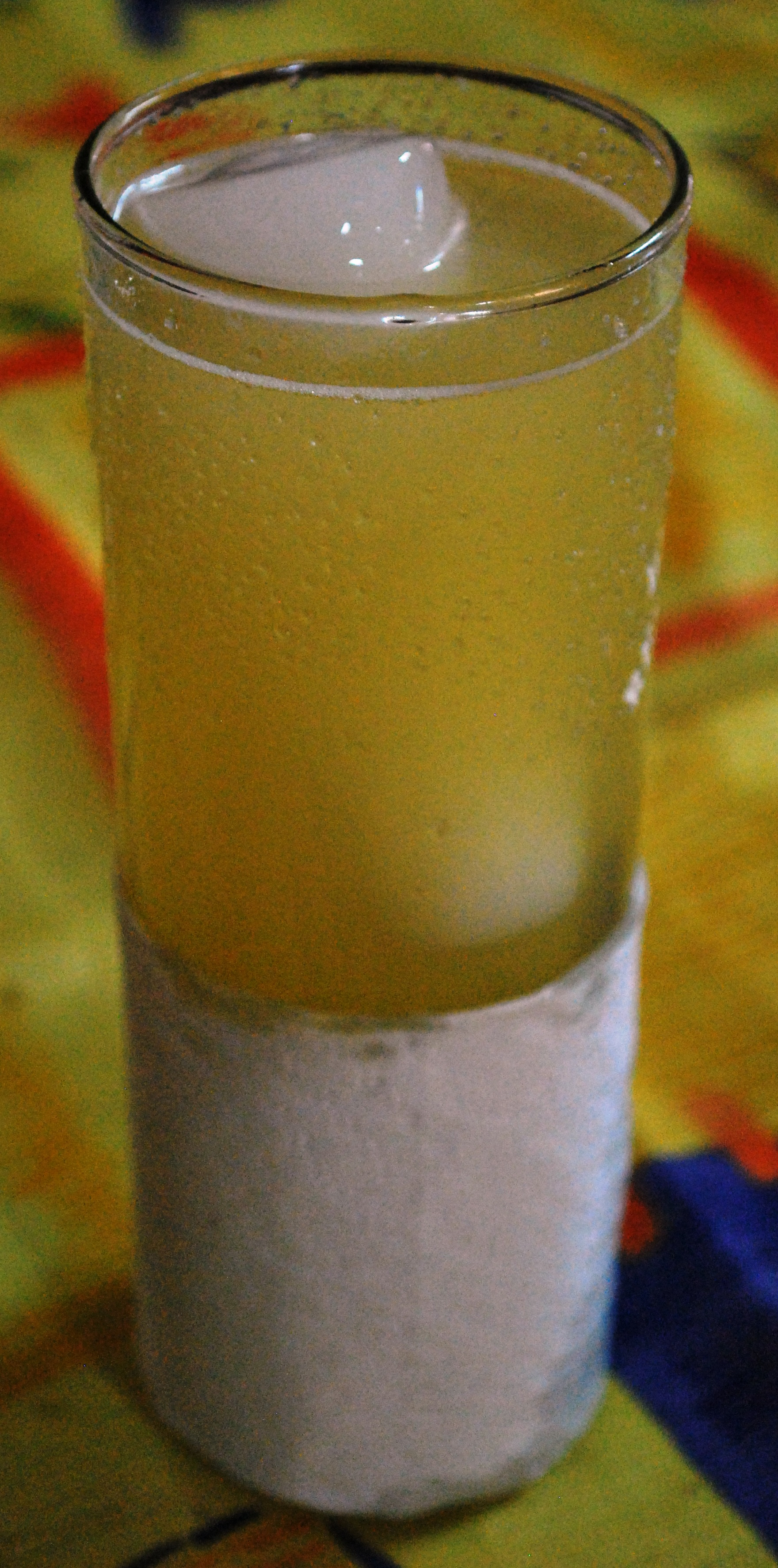 a "piñita".. a drink made with pineapple juice vodka and flavorings served at the Xoly Restaurant in Tenango del Valle, Mexico State